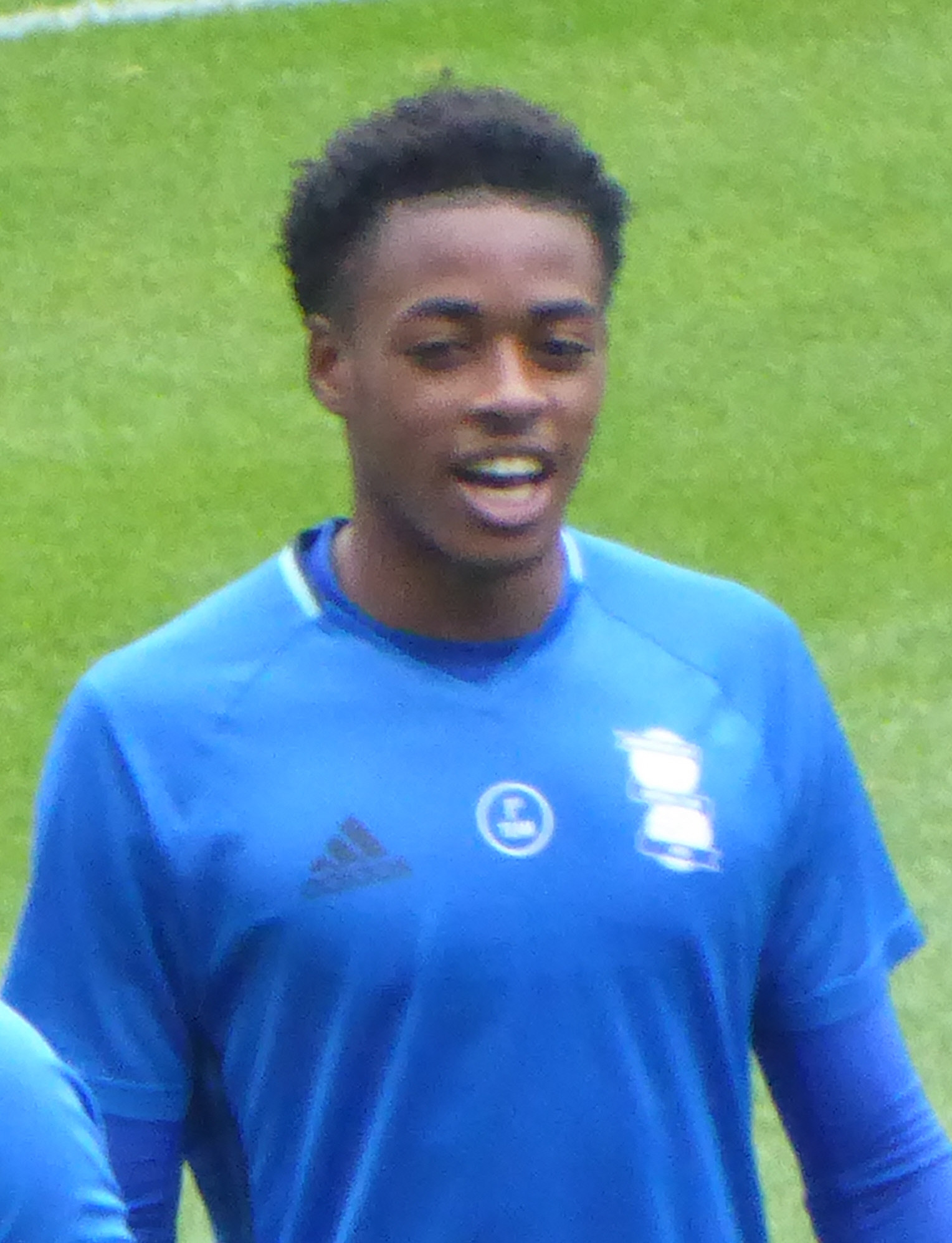 Reece Brown warms up before a Birmingham City F.C. match on 27 August 2016